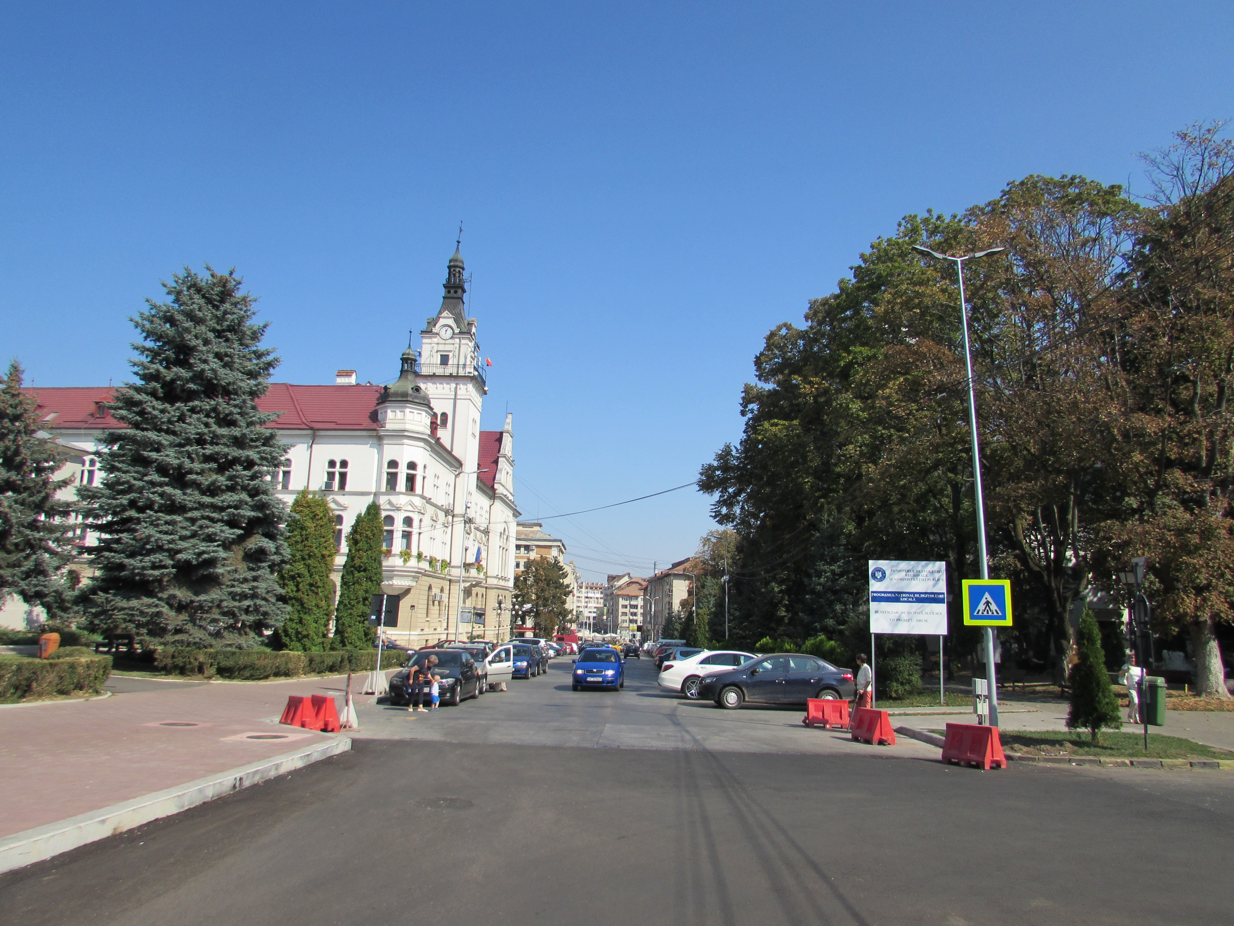 The Administrative Palace in Suceava and Ștefan cel Mare Street.